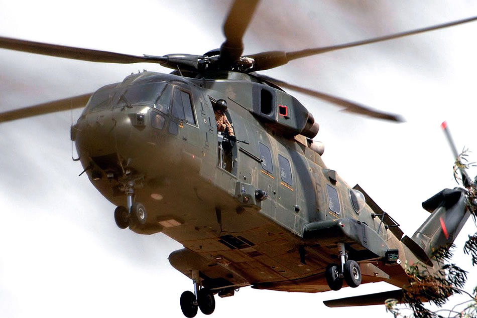 A British Merlin helicopter comes in for a landing in Al Fao, Iraq, Sept. 29, 2008. The helicopter crew is assigned to the Royal Air Force 28 Squadron, flying into Al Fao to pick up passengers to return to Camp Basra.